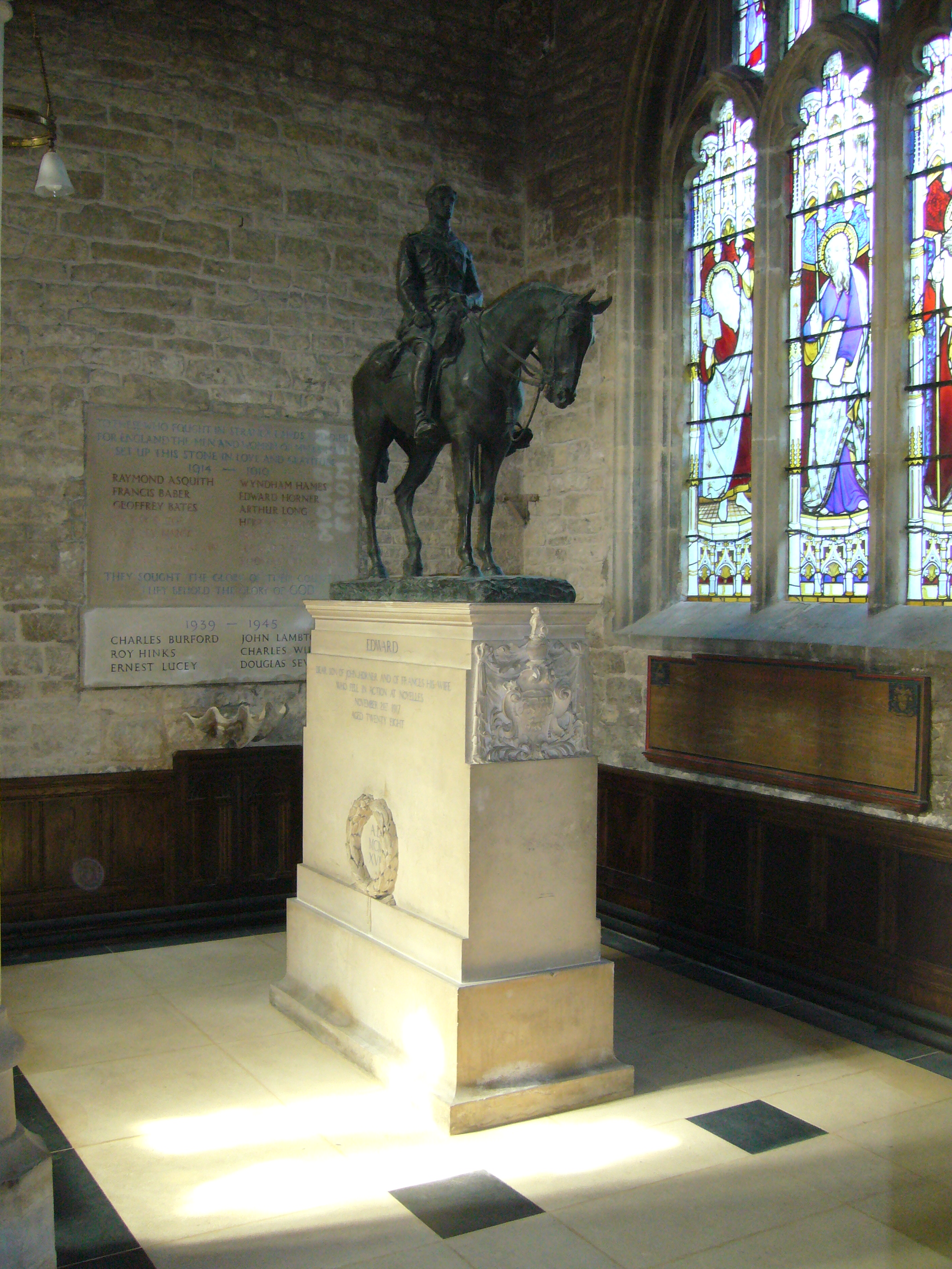 Equestrian statue to the memory of Edward Horner, KIA in 1917 during the First World War. Photographed in 2007 at St Andrews Church in Mells.